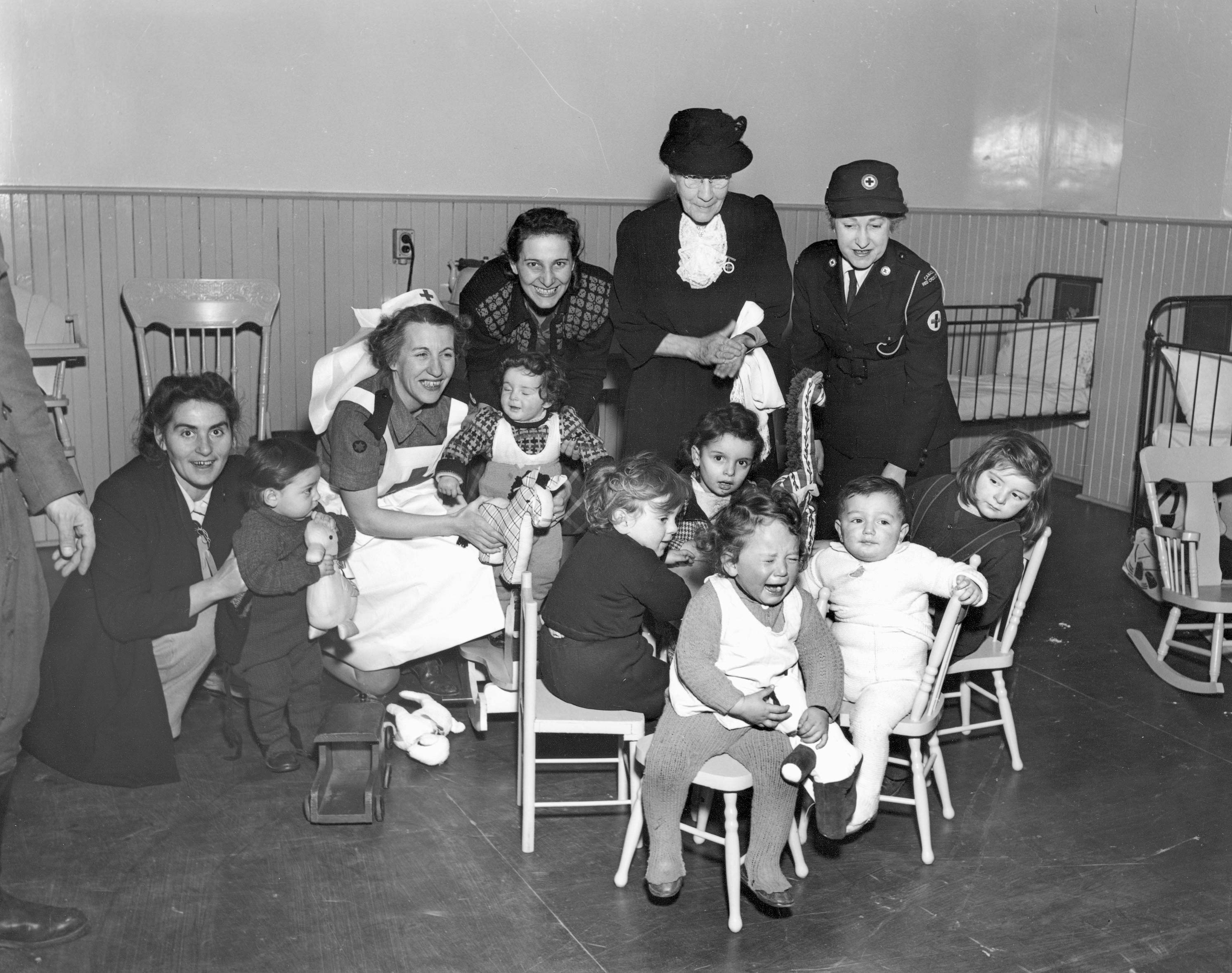 Immigrant Children with Red Cross Port Workers, Pier 21, Halifax, Nova Scotia, Canada, 1948.